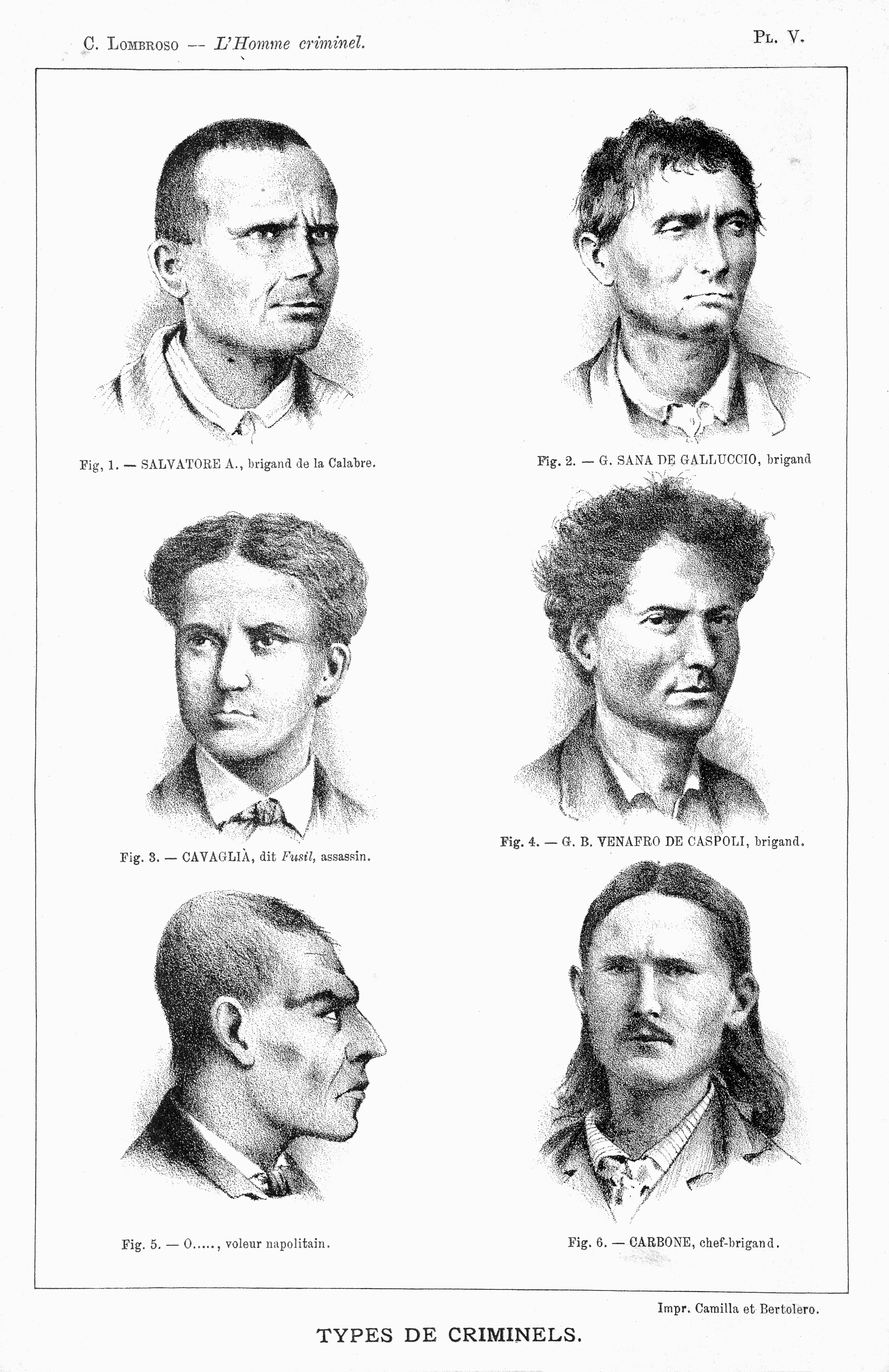 Six figures illustrating types of criminals Wellcome Images Keywords: Cesar Lombroso